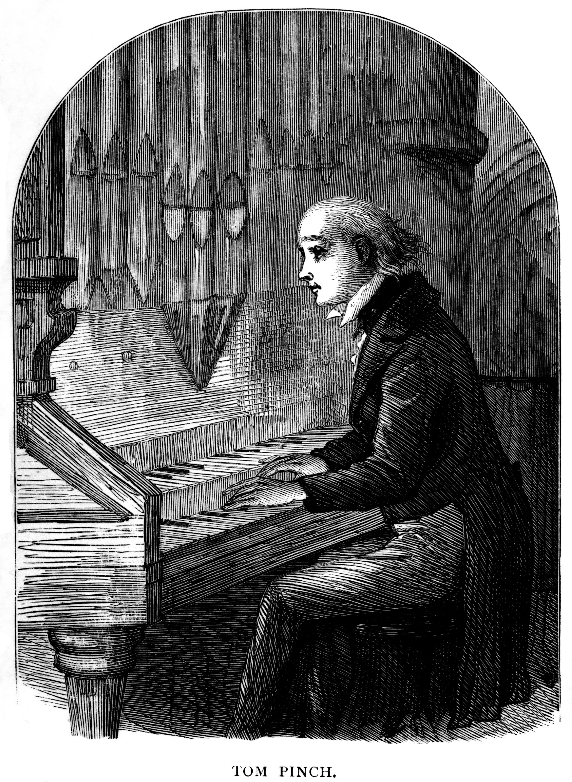 Illustration from 1867 U.S. edition of Martin Chuzzlewit. Frontispiece. "Tom Pinch"